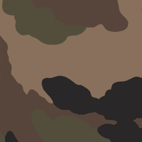 Aproximately 30 x 30 cm square of the french Centre Europe camouflage pattern for the F2 uniforms. Redrawn from photo of actual specimen.